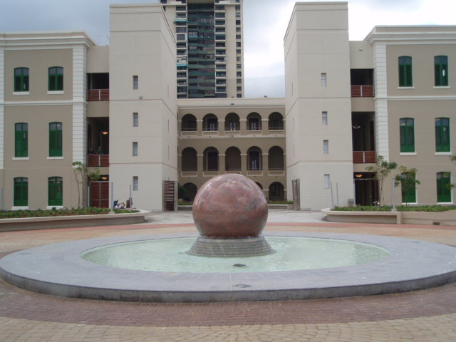 North Courtyard of the Puerto Rico Conservatory of Music seen from the Plaza de la Laguna.